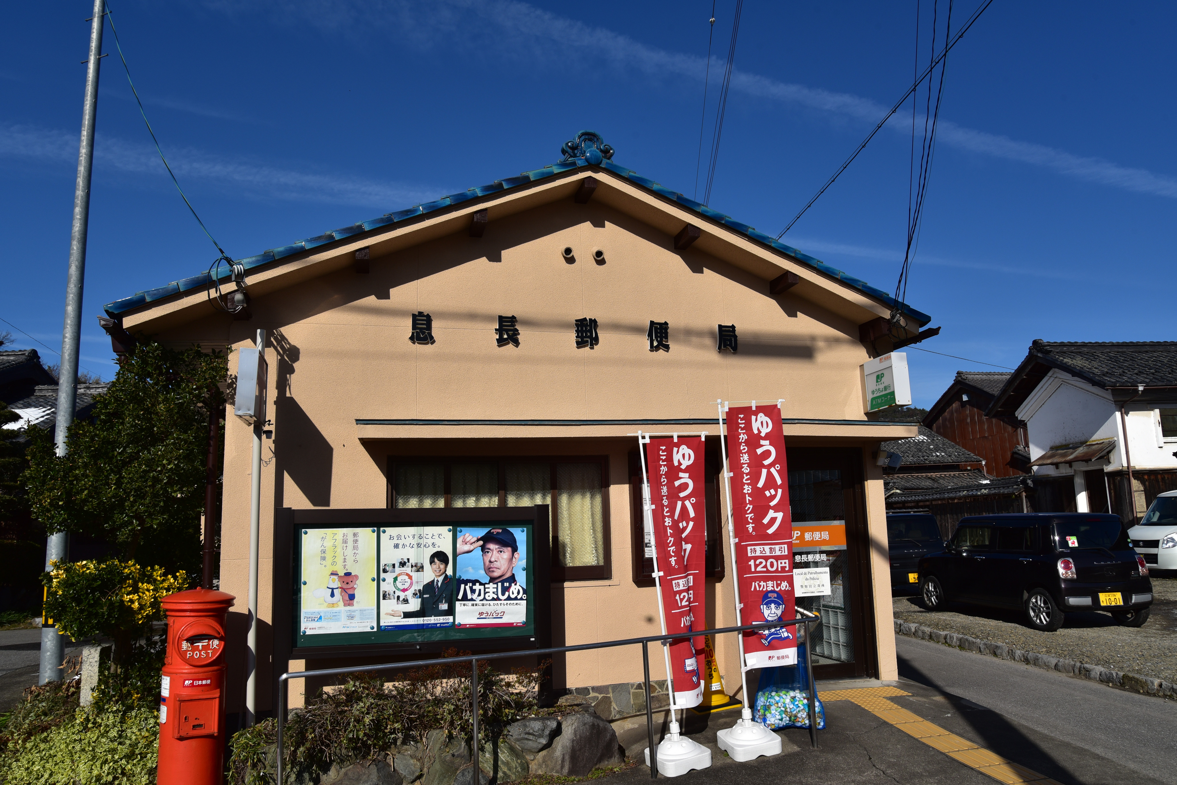 This picture is not art. Okinaga is a place name in Maibara city, Shiga prefecture. This is a picture of the Okinaga post office.